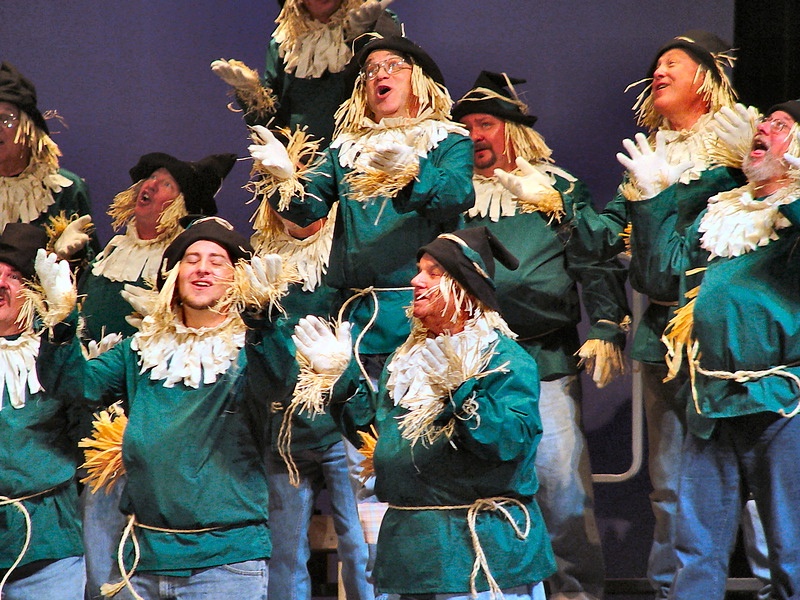 The Texas Millionaires Chorus, performing their famous scarecrow package at the International Chorus contest in Salt, Lake City, Utah. July 2005.